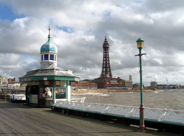 Blackpool Tower Blackpool Tower dates from 1894 and is a Grade I. listed building. It was commissioned by John Bickerstaff, the Town's famous Mayor, after he visited the Great Paris Exhibition in 1889 and was impressed by the Eiffel Tower. Blackpool Tower rises to 158m (518ft 9 inches) and can be seen from most places within a 30 mile radius. It houses a number of attractions not least of which is its ballroom in which dancers are accompanied by a magnificent Wurlitzer organ. This view of the Tower also illustrates the attractive Victorian ironwork that graces much of the North Pier. The security fence to the left of the kiosk surrounded an area of the Pier that was being re-decked when this photograph was taken. The crane jib on the shoreline to the right marks the reconstruction project that was taking place over much of Blackpool Promenade.